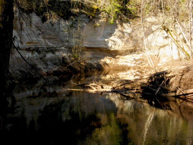 Yashera is a right tribute of the Luga River, Russia.